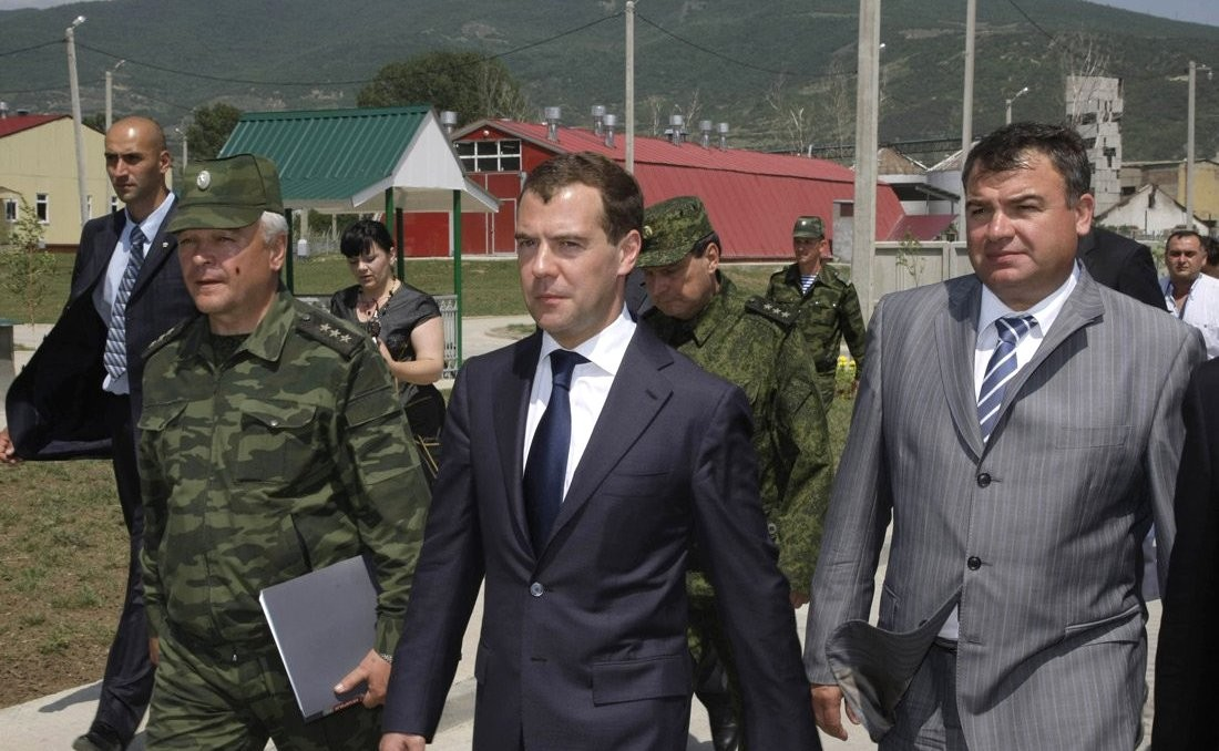 TSKHINVAL. Visit to a Russian military base. With Commander of the North Caucasus Military District Sergei Makarov (left) and Defence Minister Anatoly Serdyukov.